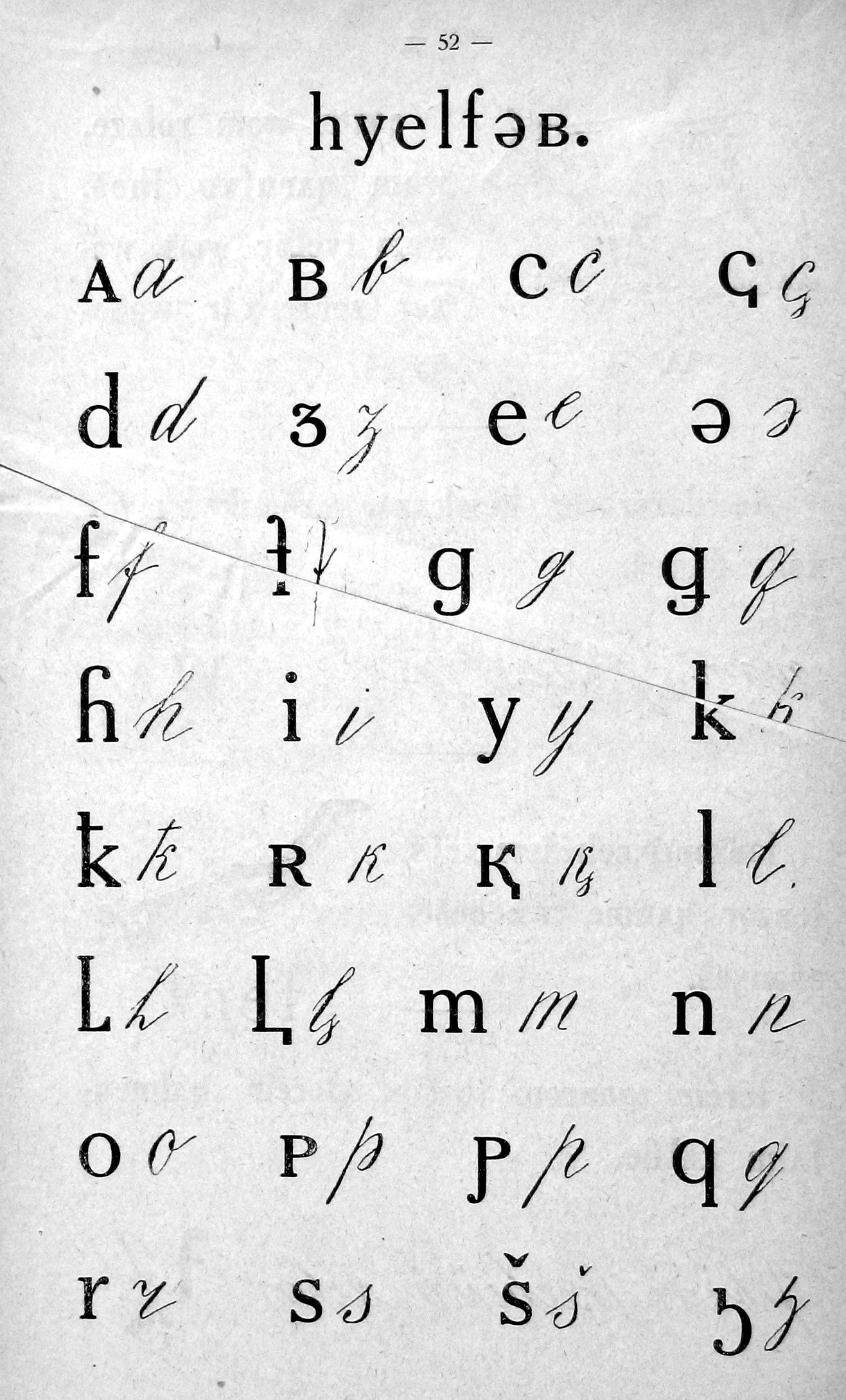 Scan from Adyg primary (1927)